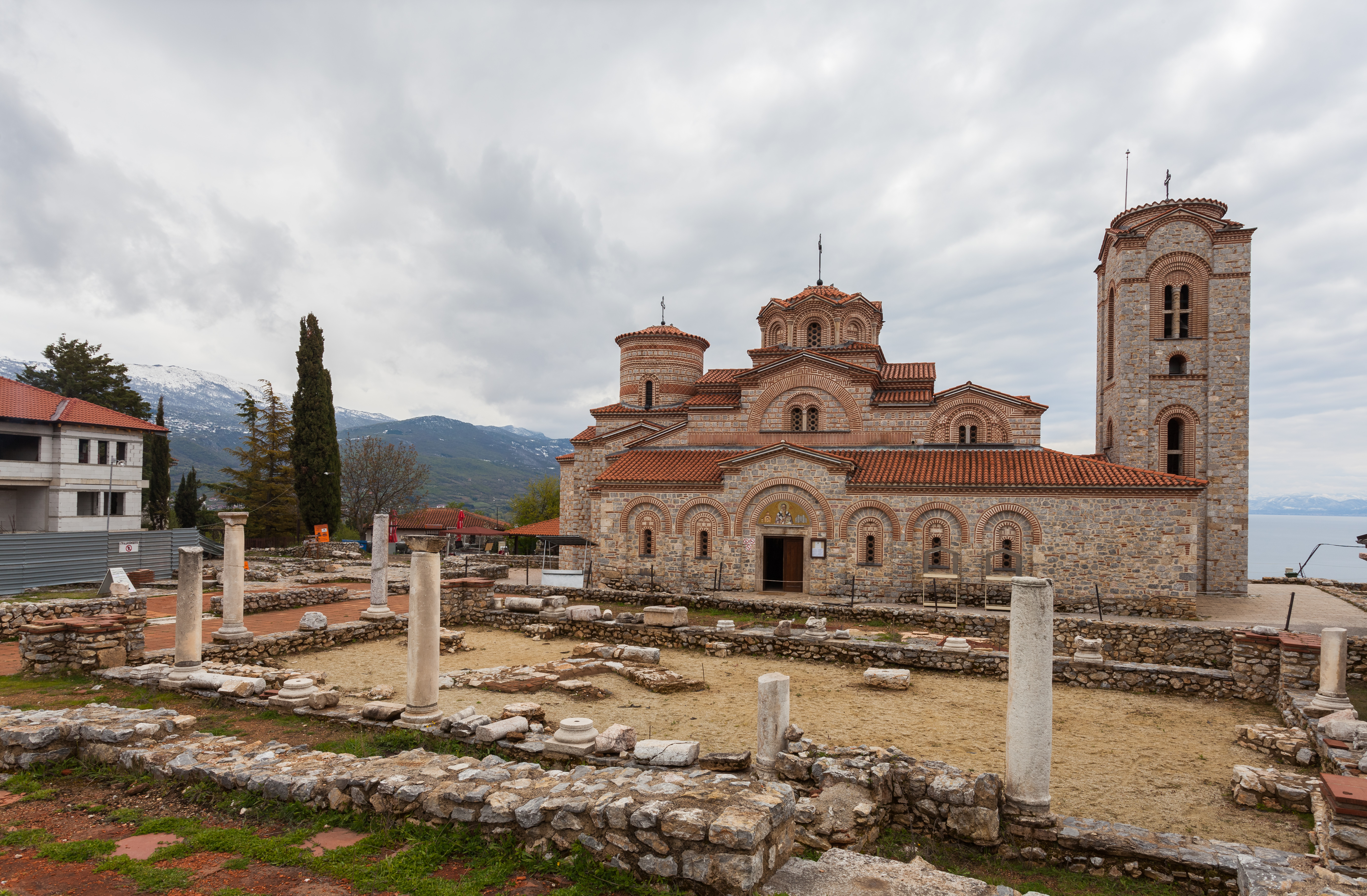 St Panteleimon church, Ohrid, Macedonia